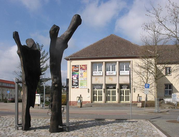 Kulturhaus (german for: culturehouse) in Ludwigsfelde, built in 1959. In the foreground the sculpture Stundeneiche (german for: hoursoak), created by the artist Franziska Uhl in 2005. Ludwigsfelde is a town in the district Teltow-Fläming, state Brandenburg, Germany.